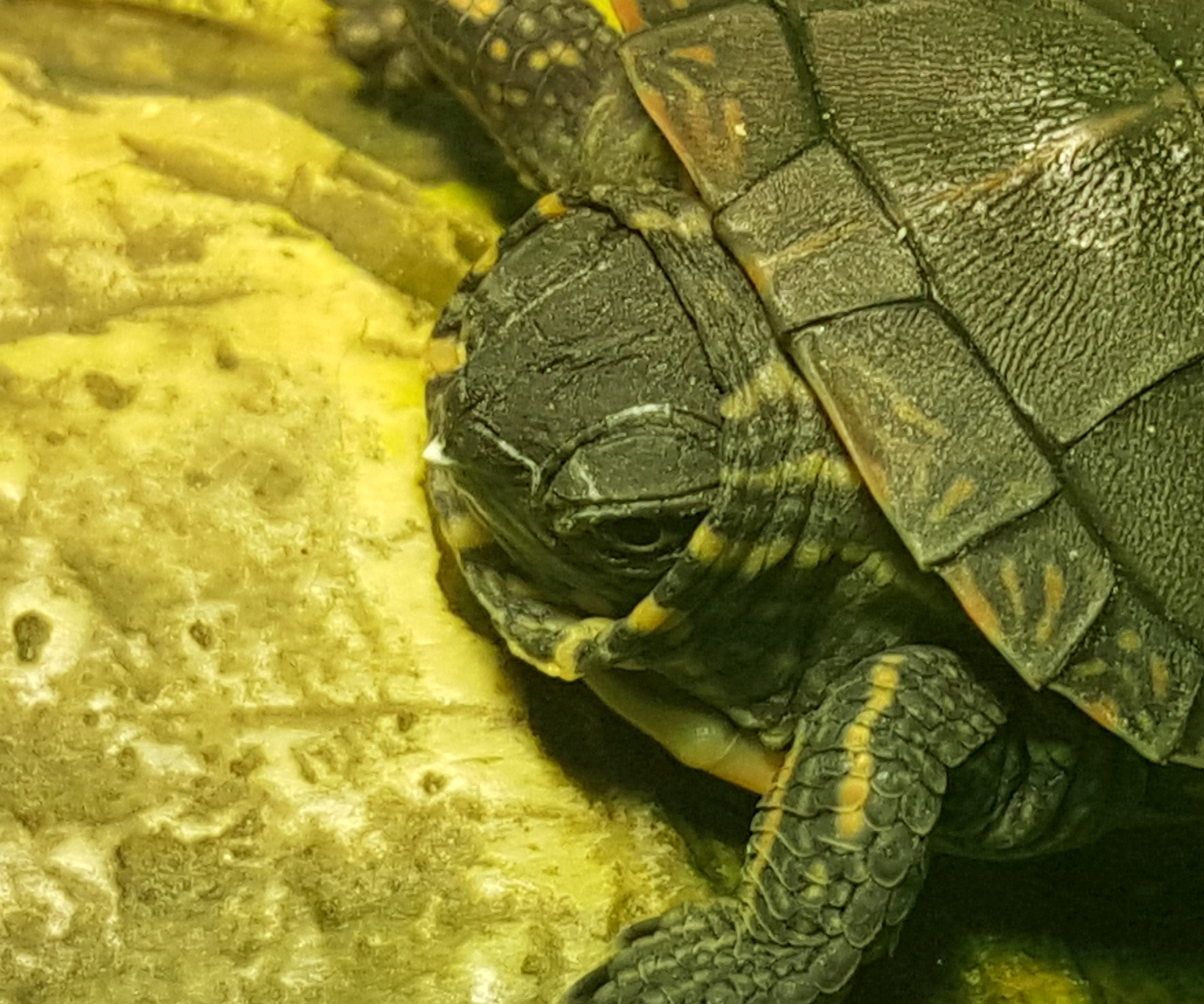 Painted turtle hatchling basking with its egg tooth intact.